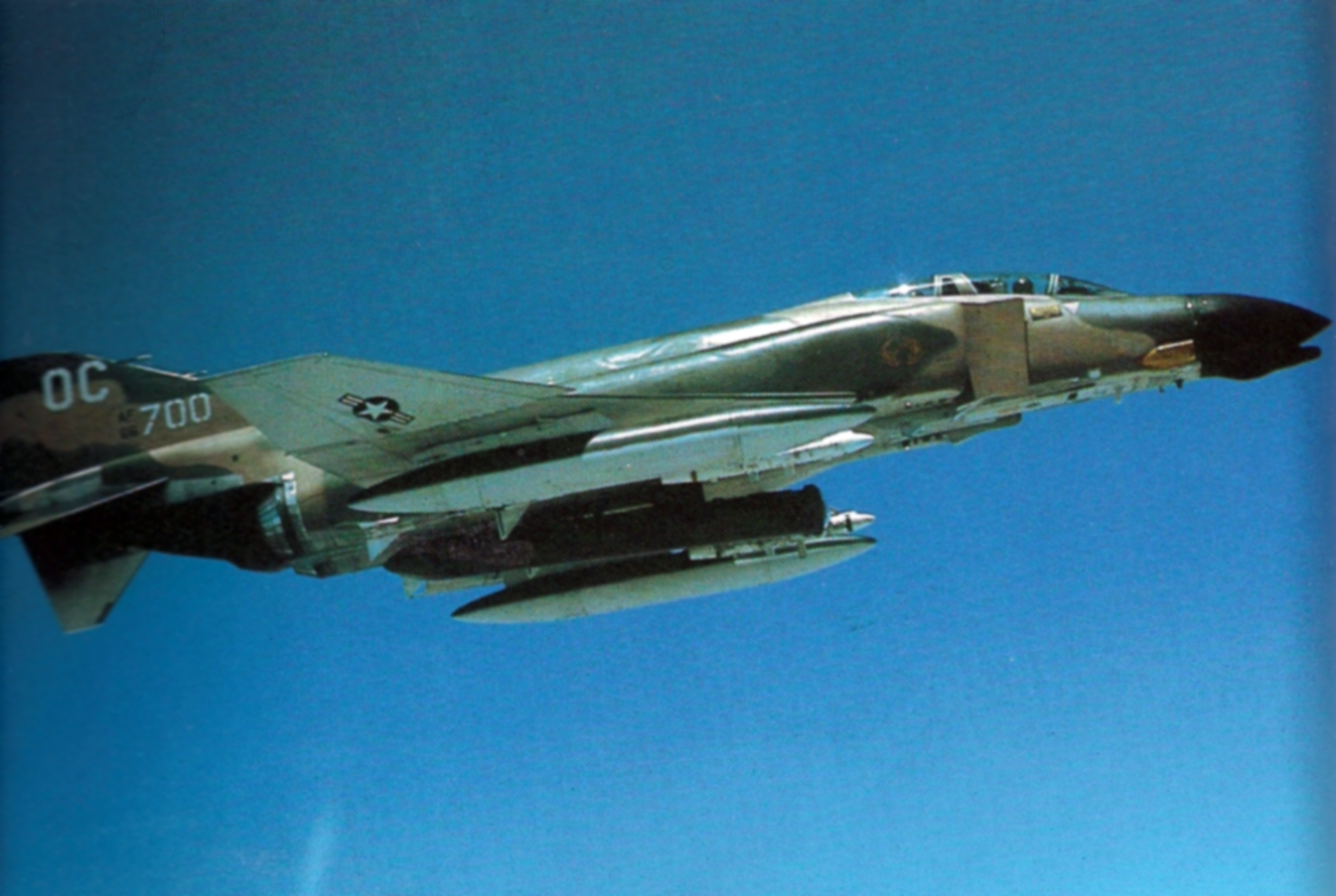 A U.S. Air Force McDonnell F-4D-31-MC Phantom II (s/n 66-7700) from the 13th Tactical Fighter Squadron, 432nd Tactical Reconnaissance Wing, in flight over Vietnam in late 1971. The aircraft is armed with two AIM-7 Sparrow missiles, and carries two AN/ALQ-72 jamming pods under the wings, and a "Pave Sword" laser targeting pod on the centerline station.